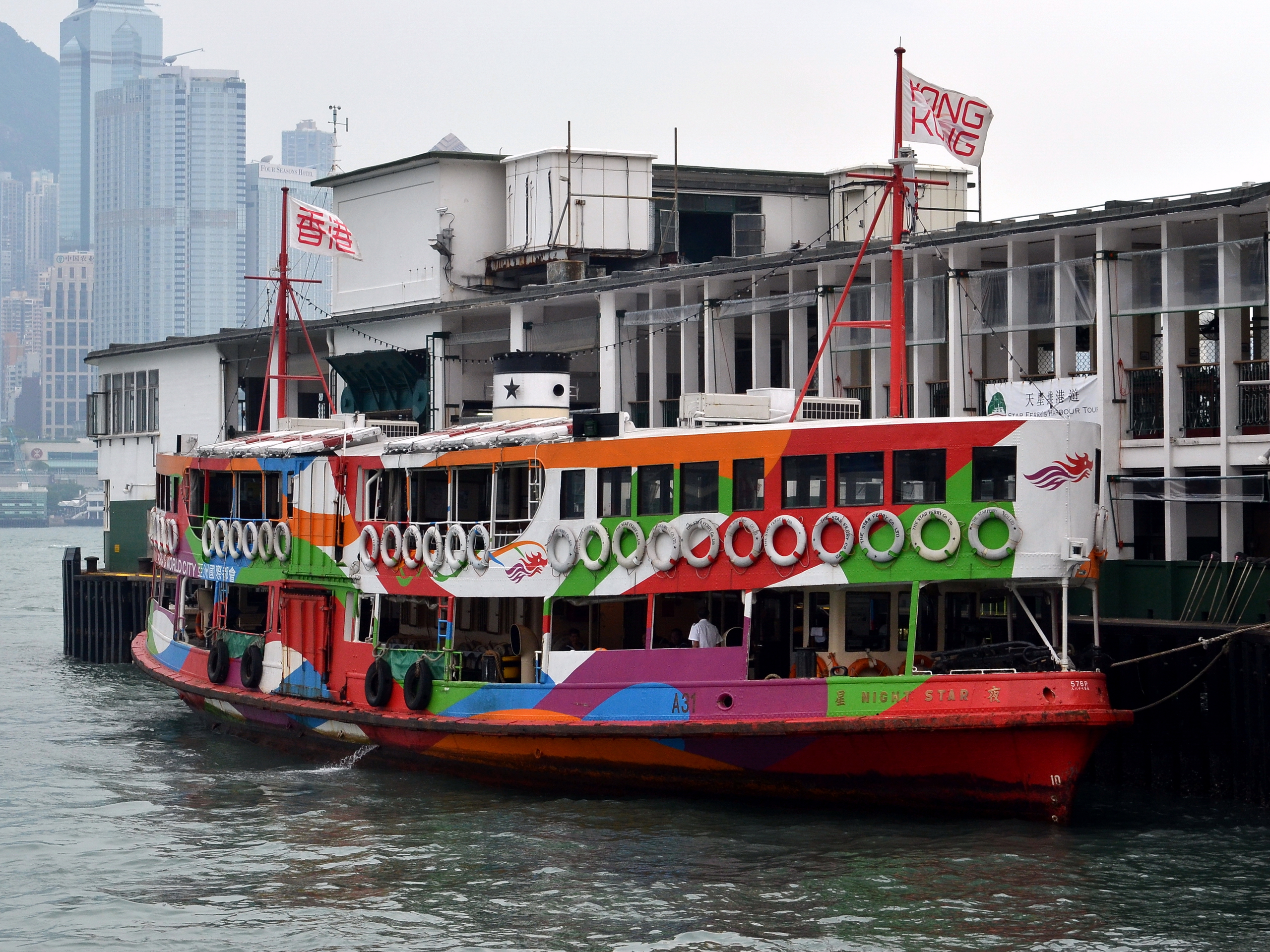 中文（中国大陆）: 夜星（Night Star）